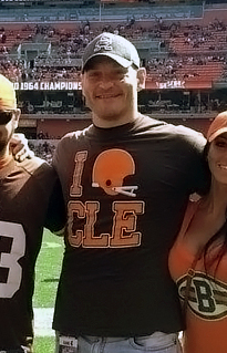 Stipe Miocic at Cleveland Browns Stadium in 2014.